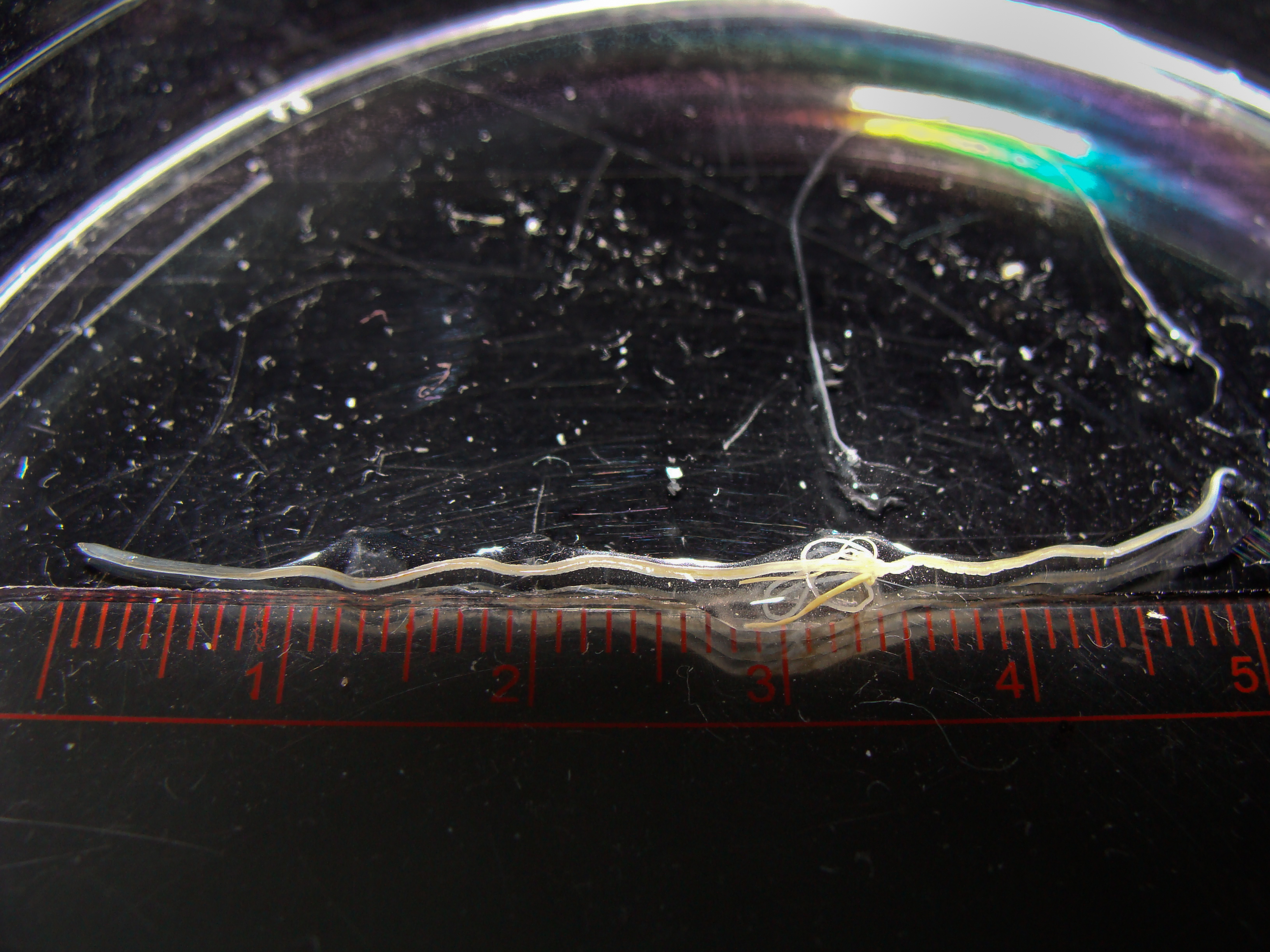 Loa Loa - filarial worm. This was extracted from a patient's conjunctiva in the left eye. It was still moving on extraction and measures 55mm in length by 0.5mm in width. Patient was originally from East Africa - parasite infection by this worm is rarely found in the UK. In all cases seen in UK the infection arose abroad. This is an adult female worm.